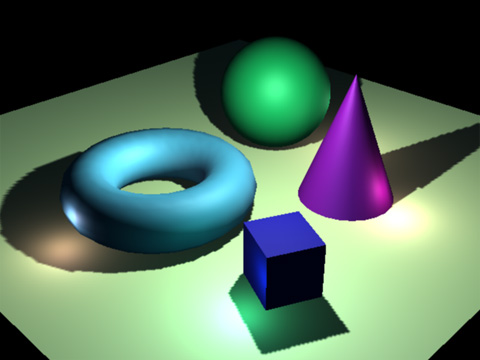 Deferred rendering breakdown : Final Composited Result